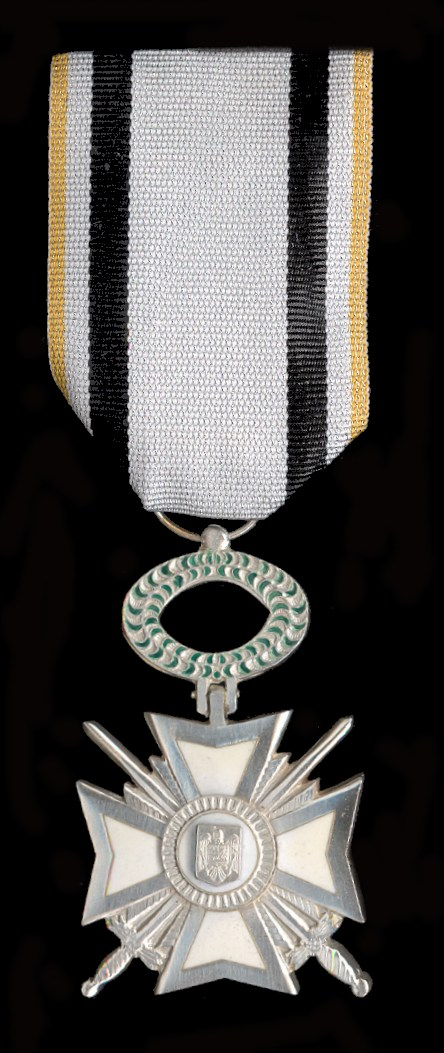 Romanian National Order For Merit, Knight's Cross awarded for war service